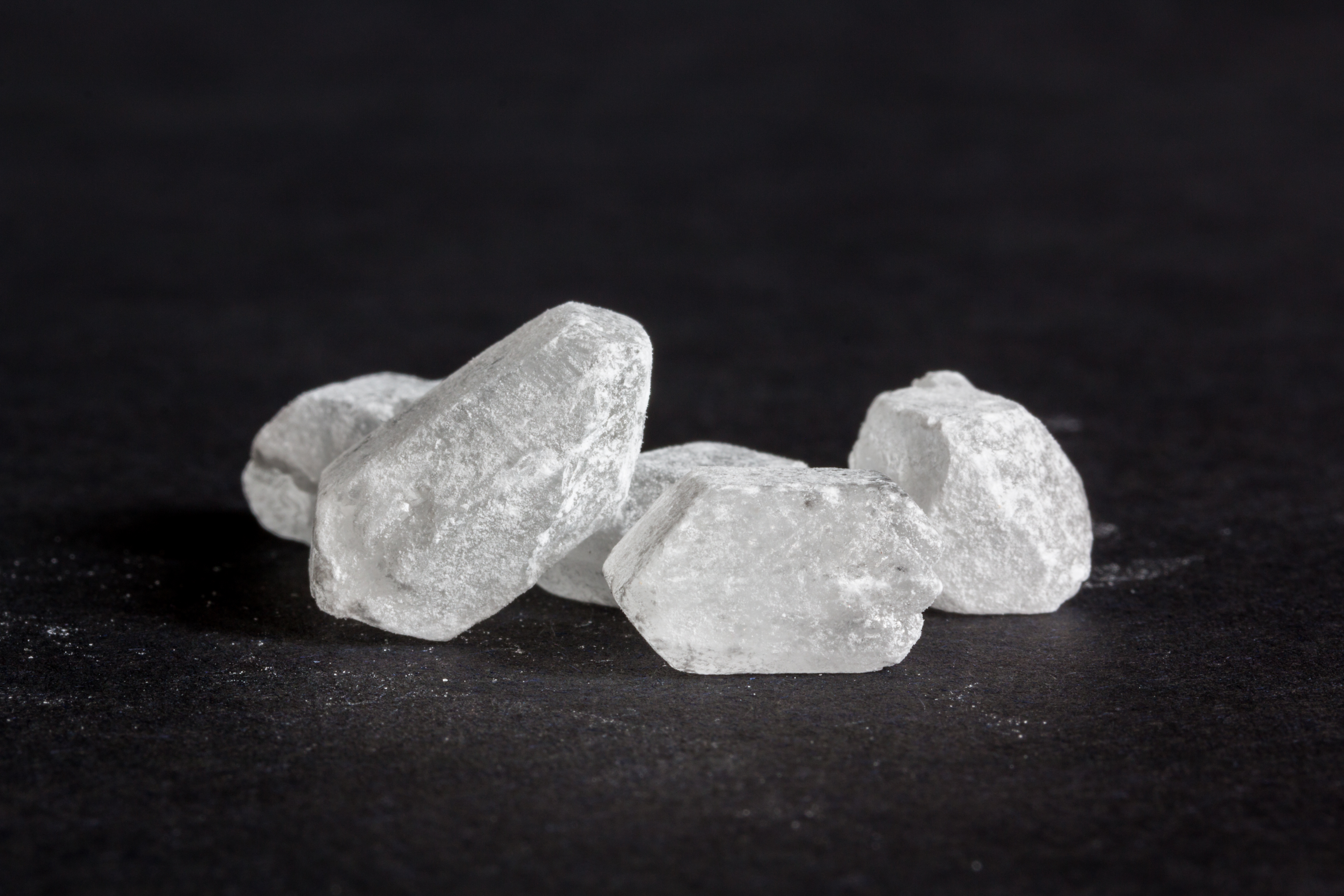 White rock sugar or white rock candy